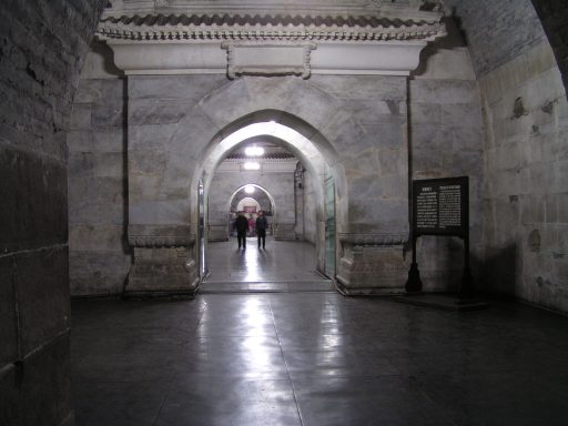 A picture inside the Dingling tomb - a part of the Ming Dynasty Tombs